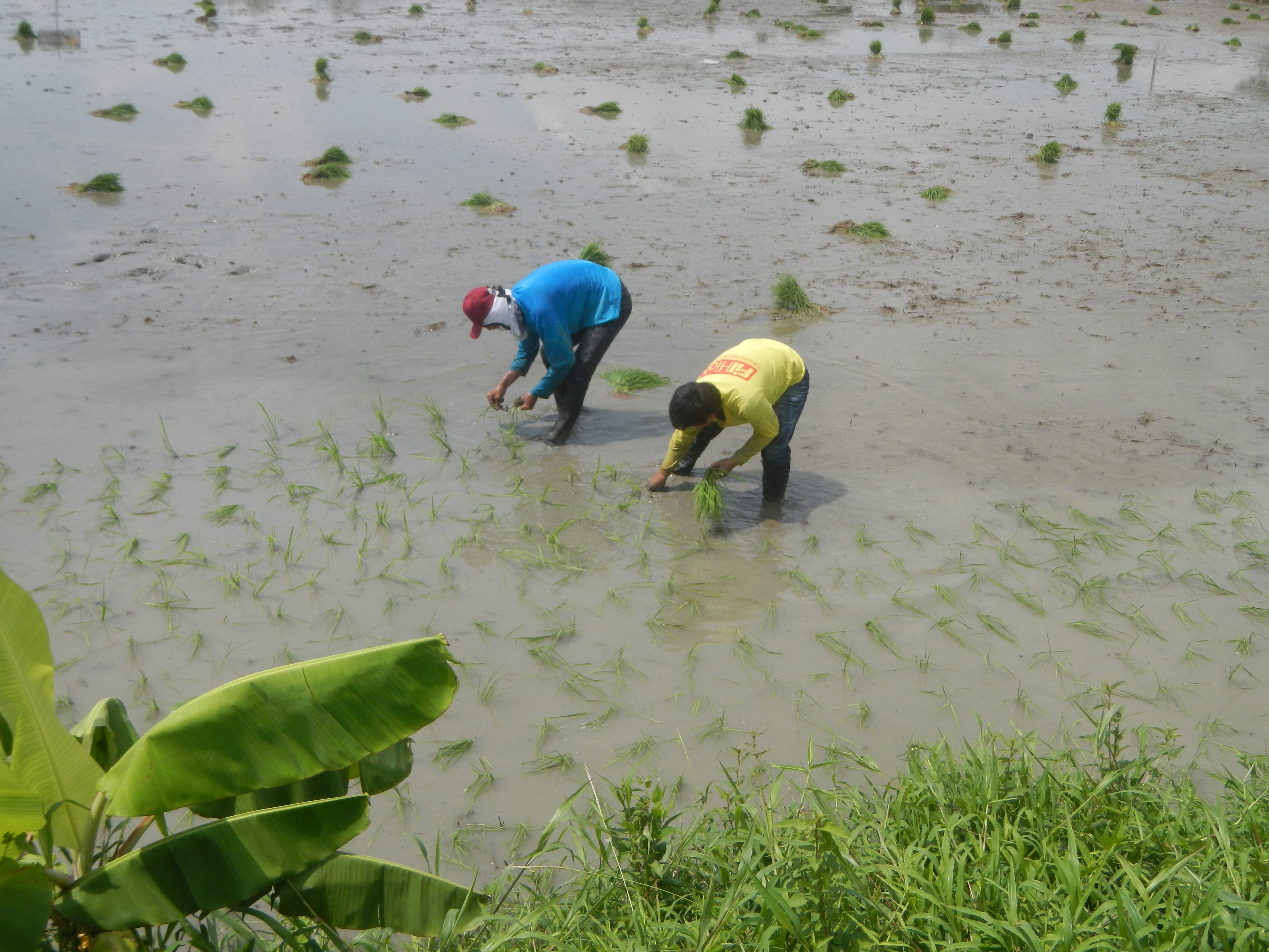 Rice transplanters in the Philippines